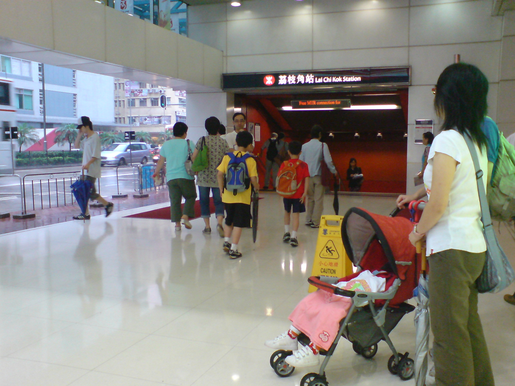 MTR Lai Chi Kok station Entrance/Exit A